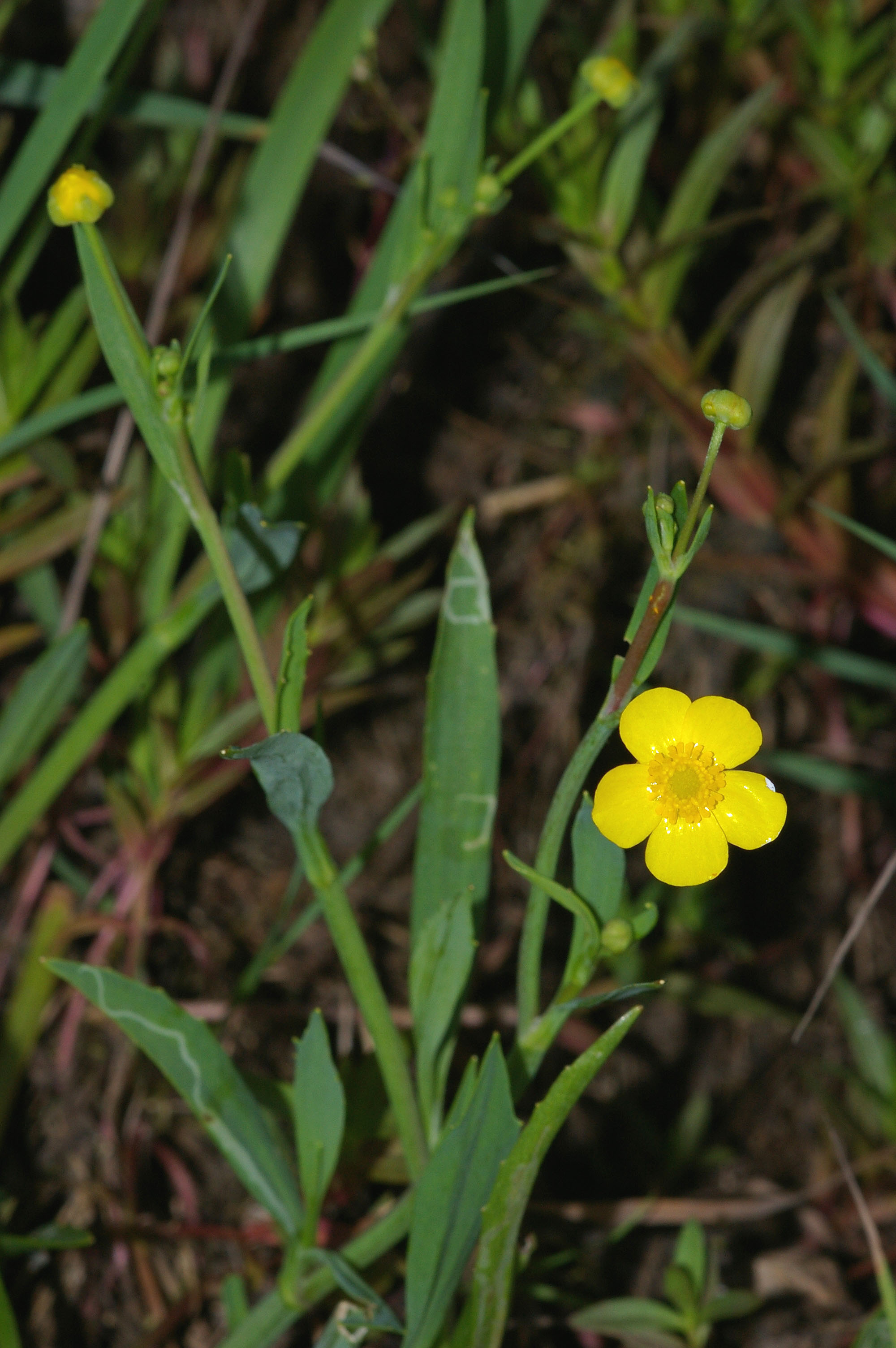 Flowering Ranunculus flammula (Ranunculaceae).